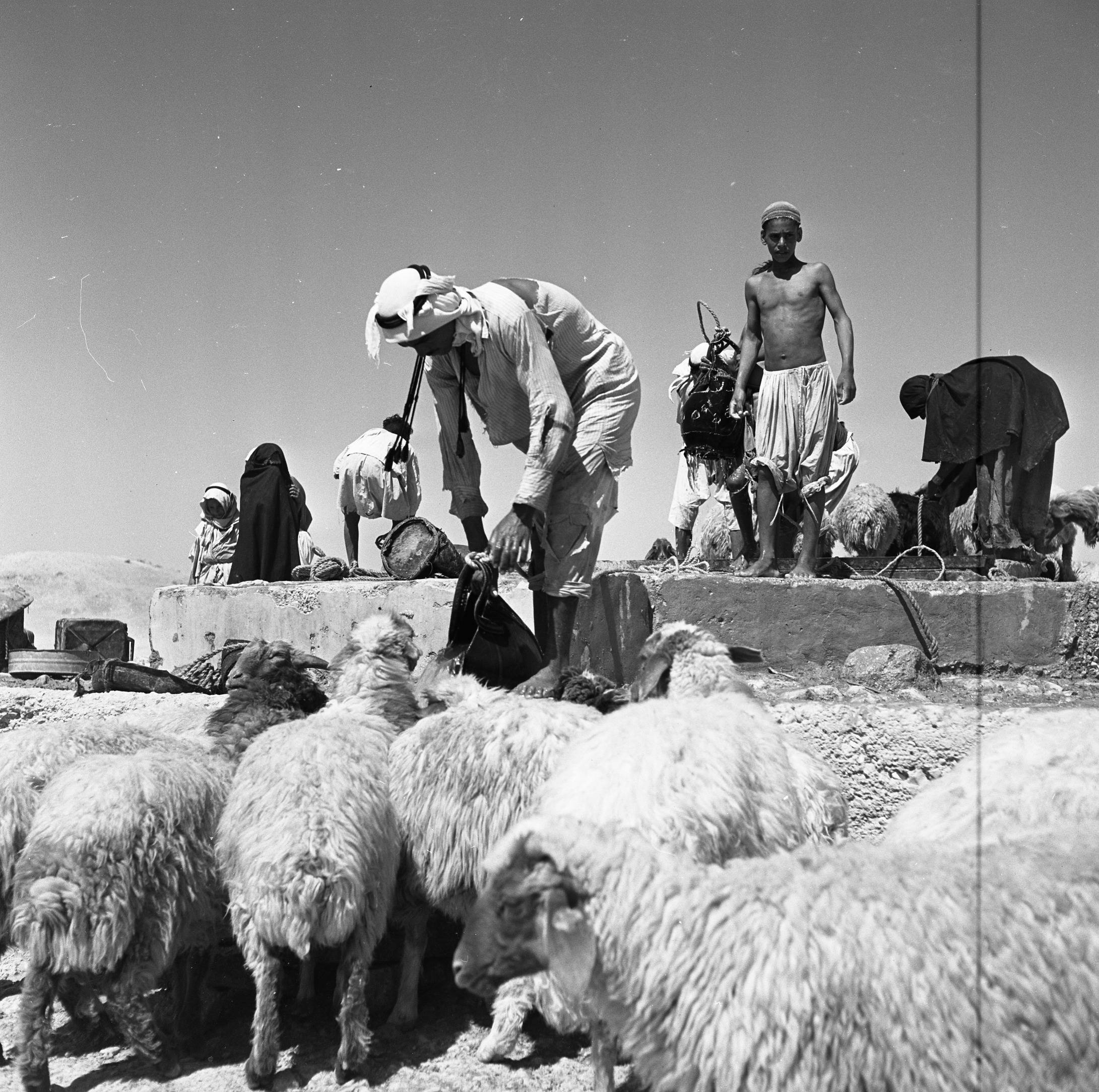 Bedouin pumping Water from the well